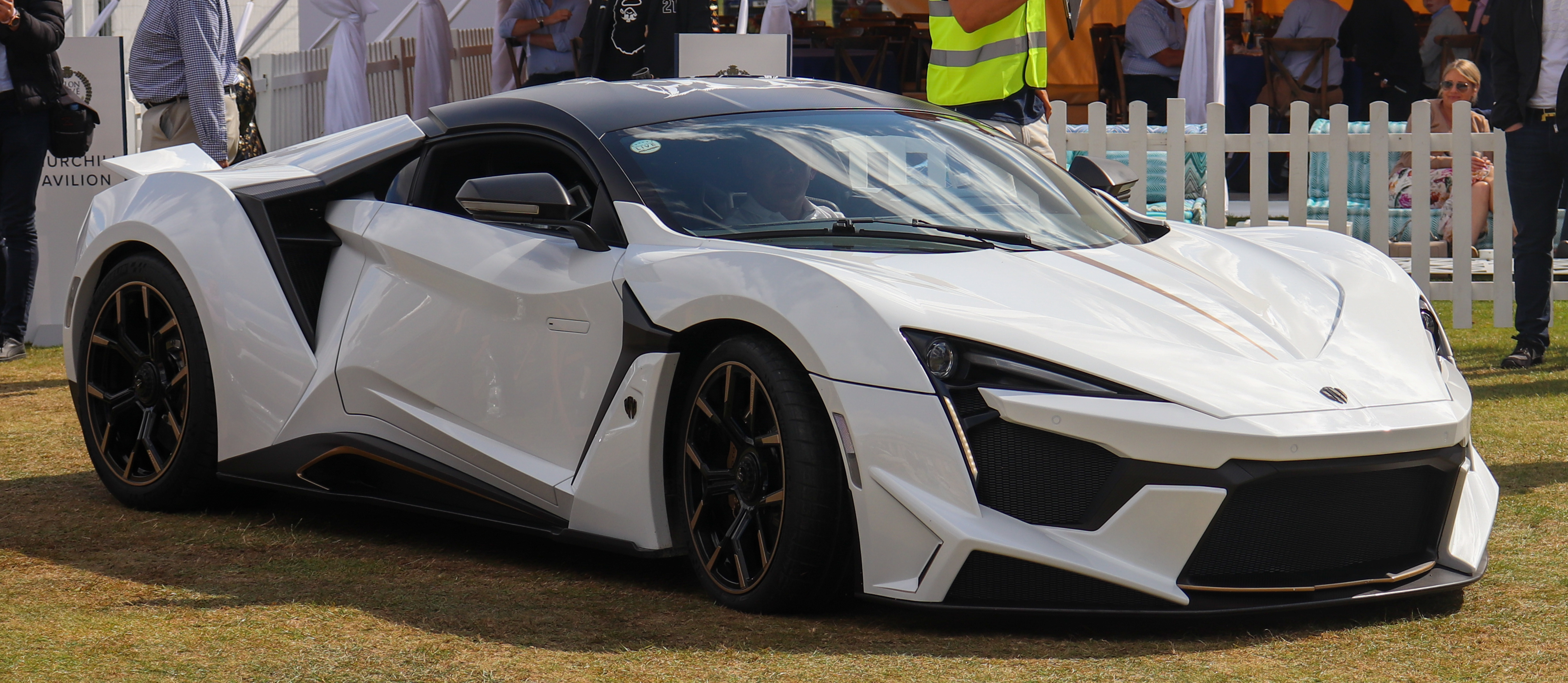 2018 W Motors Fenyr SuperSport 3.8 Taken at the Salon Privé Concours d'Elegance Classic Car Motor Show 2019, Blenheim Palace